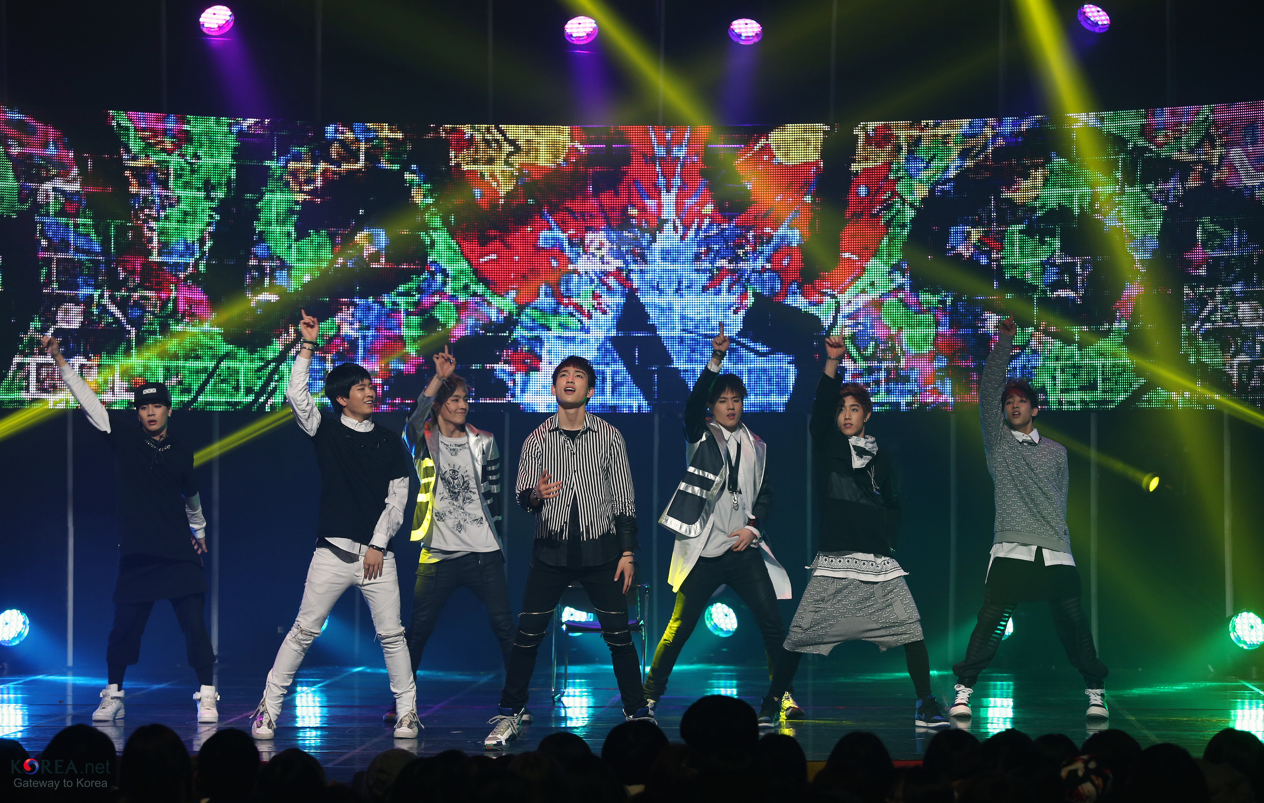 Mcountdown GOT7 JB, Jr. Mark, Jackson, Youngjae, BamBam(Kunpimook Bhuwakul), Yugyeom CJ E&M Center, Sangam-dong, Mapo-gu, Seoul 2014.03.06. Ministry of Culture, Sports and Tourism Korean Culture and Information Service ( Jeon Han 엠카운트다운 생방송 갓세븐 ‘난 니가 좋아’ JB, 마크, Jr. 잭슨, 영재, 뱀뱀, 유겸 2014-03-06 CJ E&M 센터 문화체육관광부 해외문화홍보원 코리아넷 전한